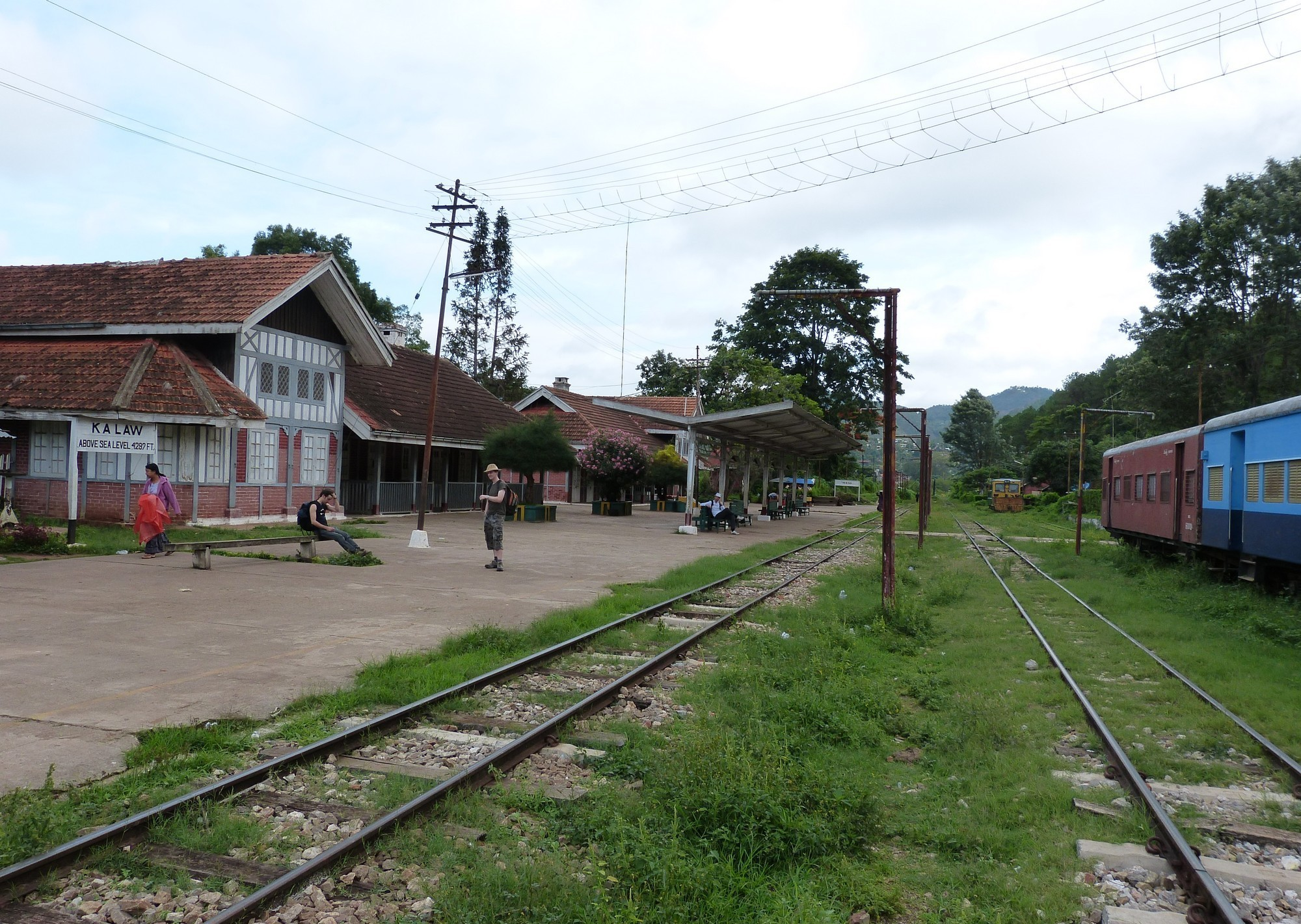 Kalaw, Shan State, Myanmar